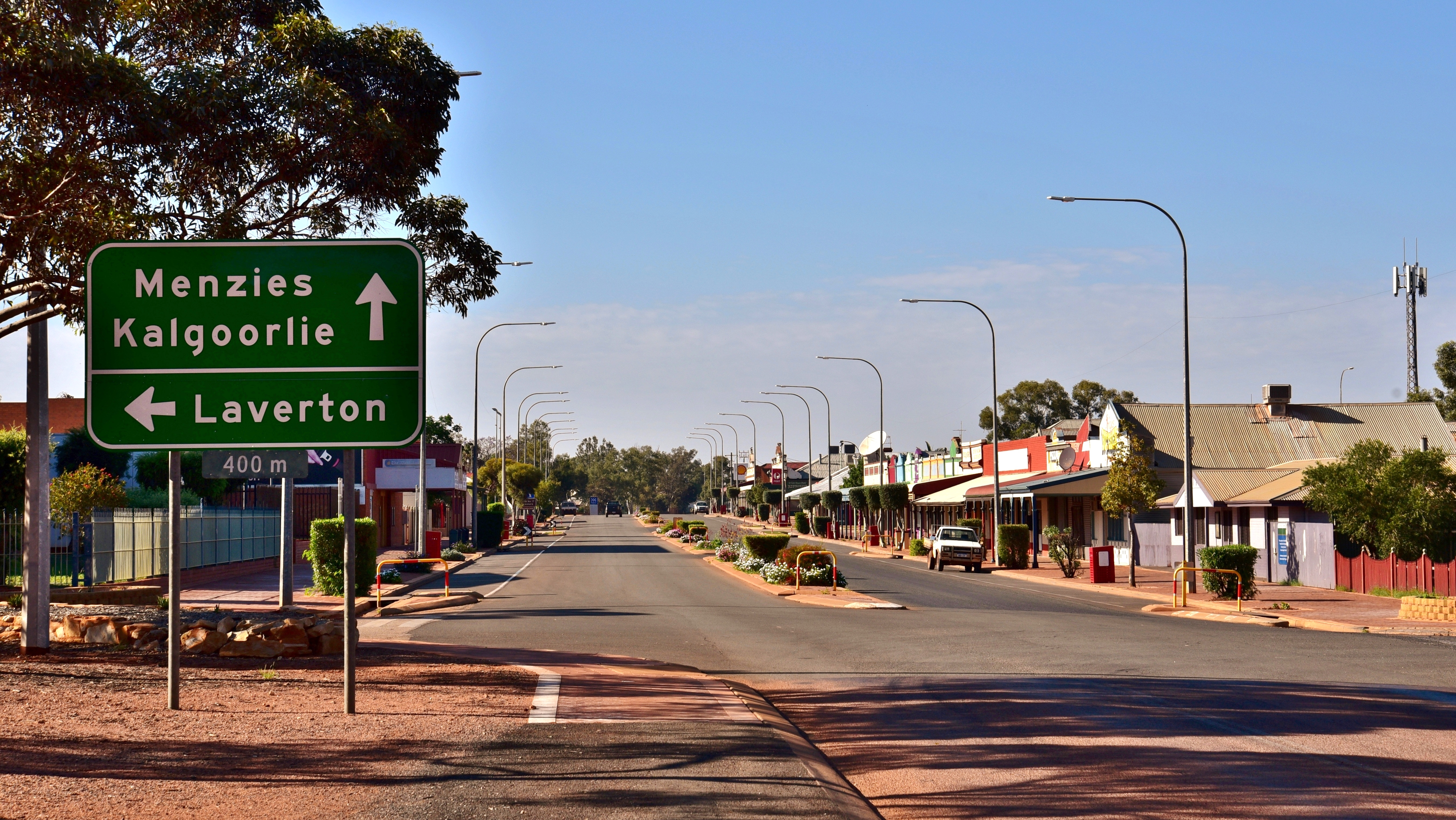 View of Tower Street, the part of Goldfields Highway that is also the main street of Leonora, Western Australia